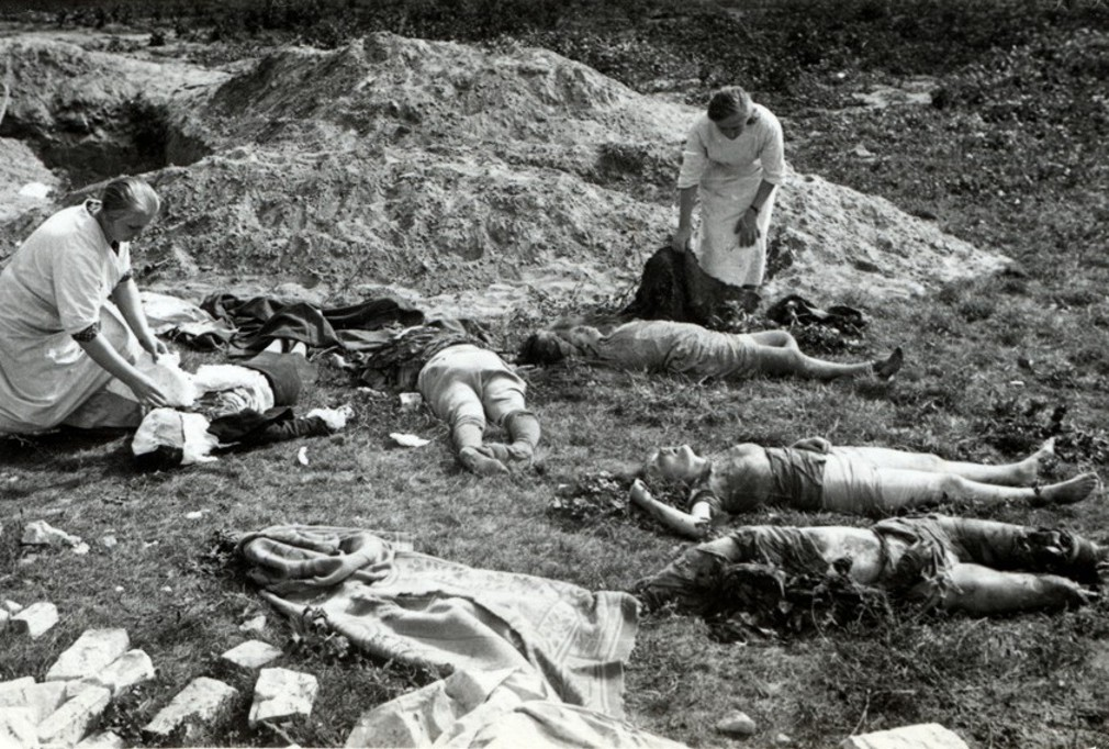 Polish civilian victims of German Luftwaffe attack on civilians.